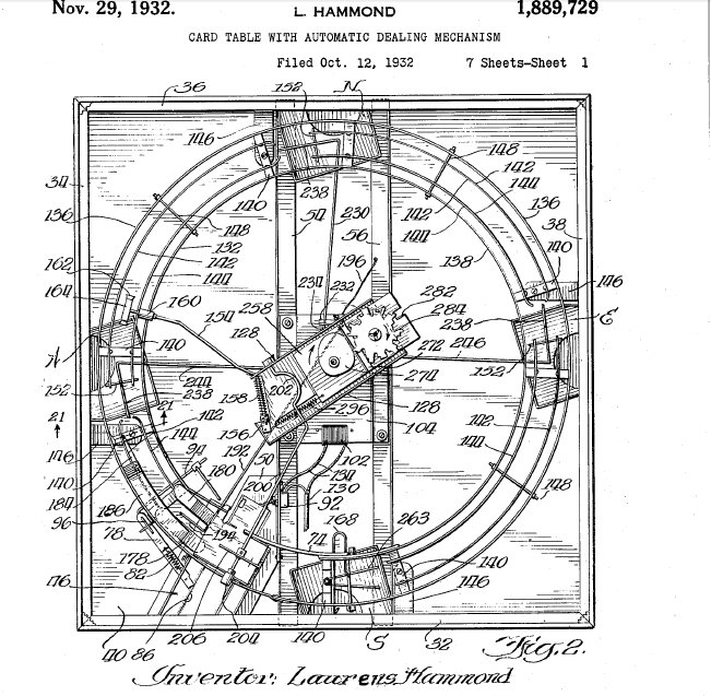 Hammond card table with automatic dealing mechanism